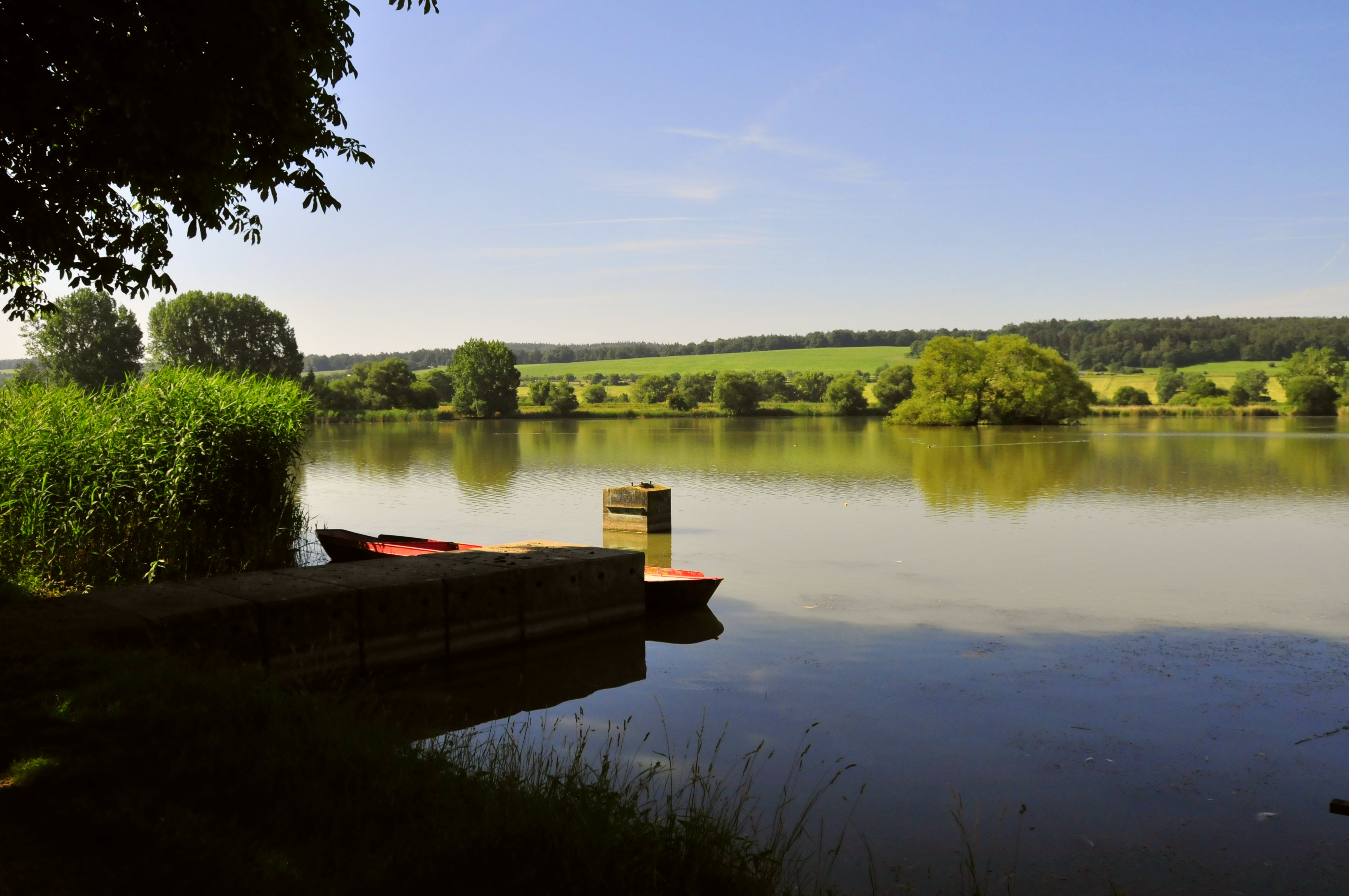 Cumbacher Teich (reservoir)